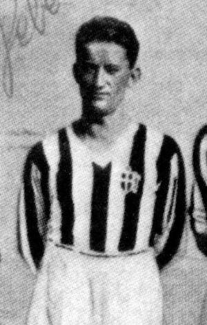 Italian footballer Mario Ferrero with F.B.C. Juventus in the 1932–33 season.